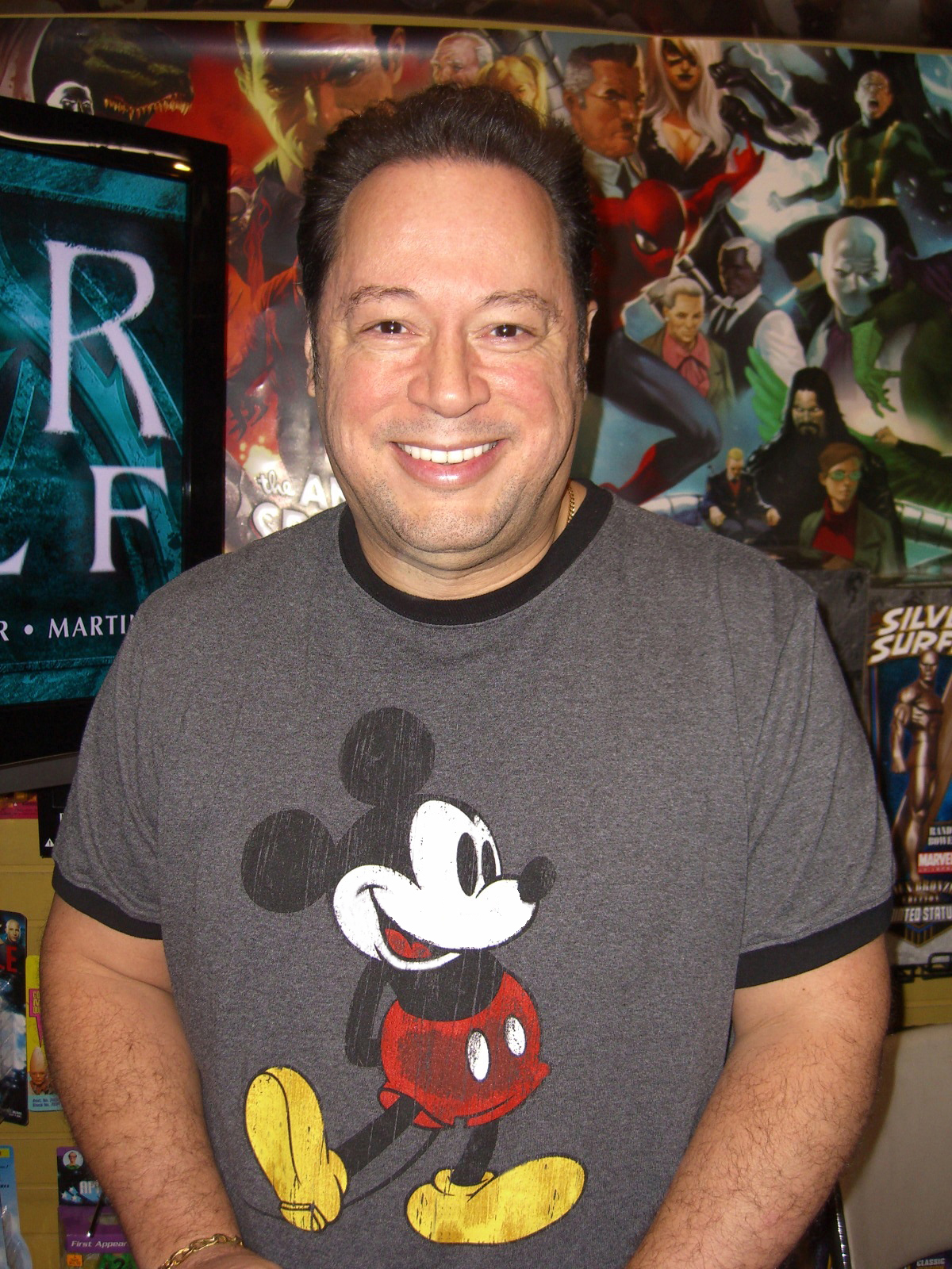 Marvel Comics Editor-in-Chief Joe Quesada at a press conference at Midtown Comics Times Square in Manhattan, in which he and fellow editors Tom Brevoort and Axel Alonso announced the 2010 company-wide crossover event, "Fear Itself". This photo was created by Luigi Novi. It is not in the public domain, and use of this file outside of the licensing terms is a copyright violation.